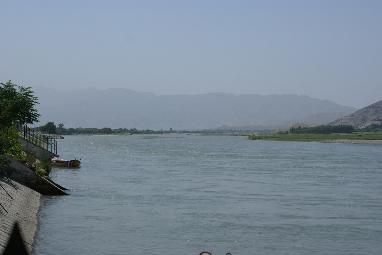 Kabul River in Behsood Bridge Area, Jalalabad - 30th July, 2009. By Qudratullah Khan پښتو: د کابل سيند د بهسودو پله په سيمه کې. په ۳۰ د جولای، ۲۰۰۹ کال. قدرت الله